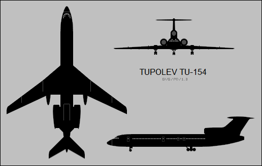 3-view silhouettes of the Tupolev Tu-154